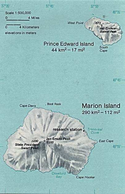 Map of the Prince Edward Islands (South Africa) in the southern Indian Ocean